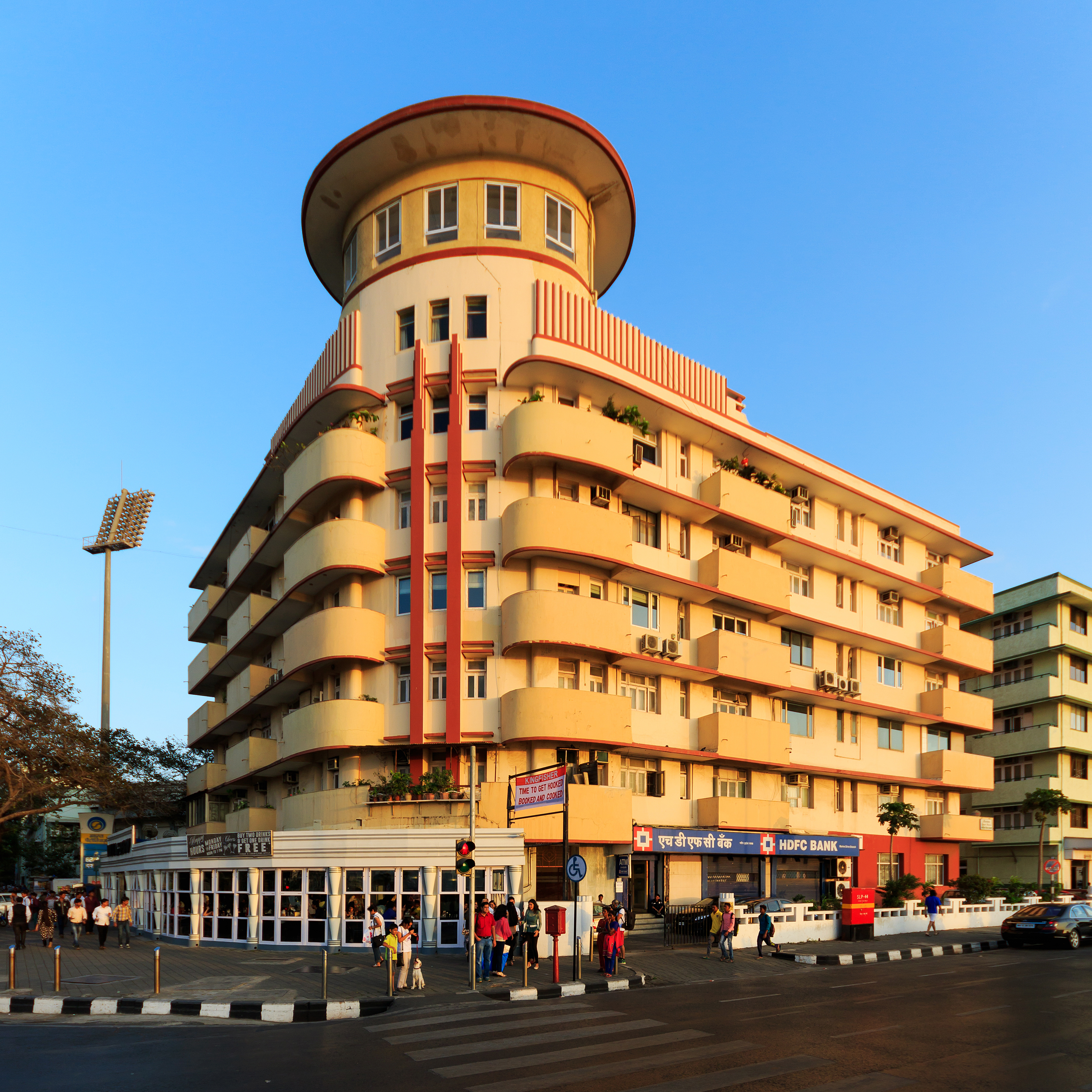 Residential building at Marine Drive in Mumbai, India